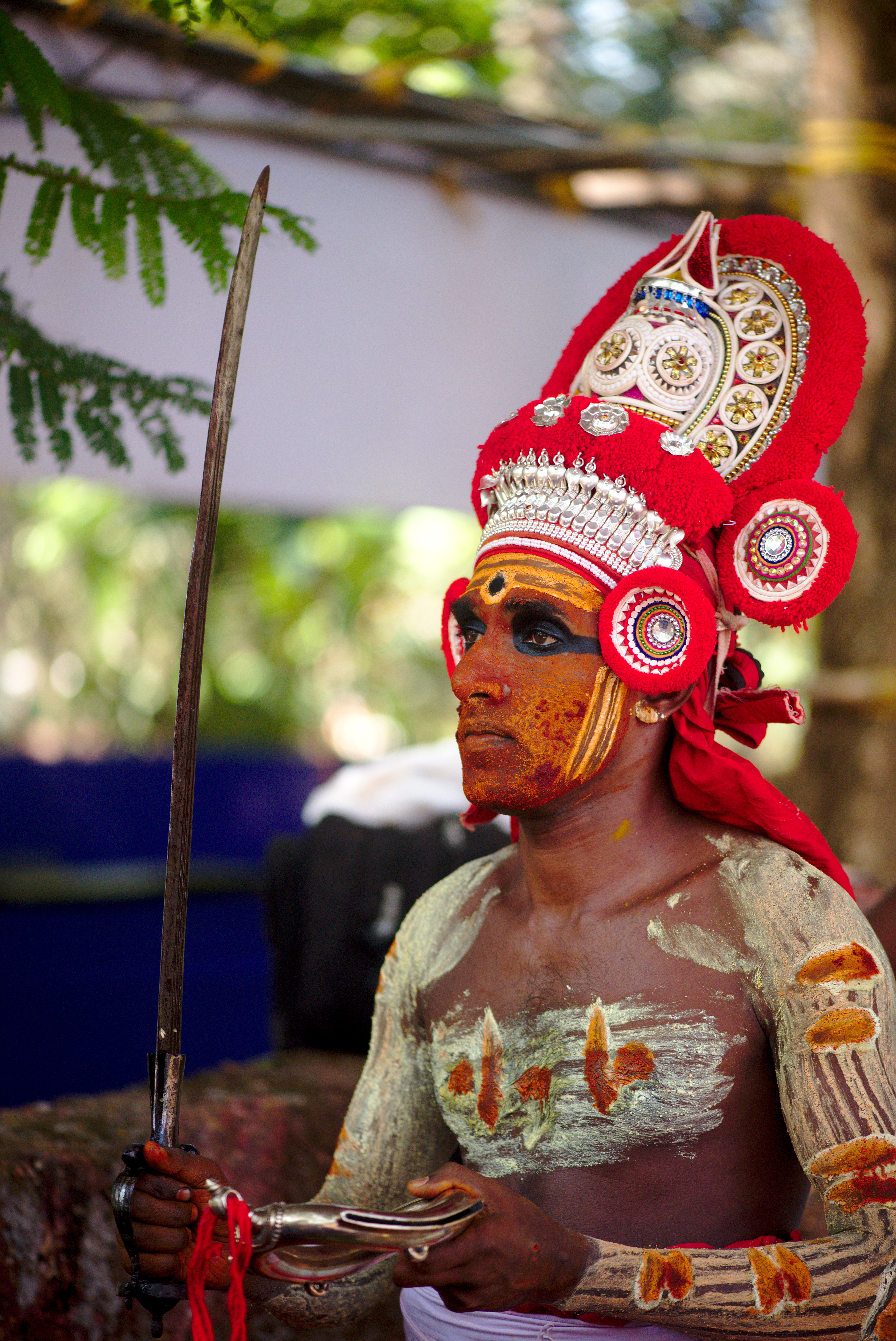 Make up of Ucheli theyyam